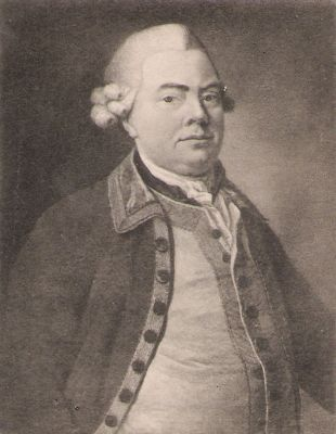 Otto Ditlev Kaas